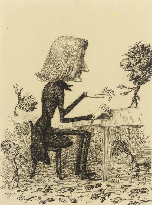 Caricature of Franz Liszt playing the piano. Signed and dated al Bertrand/Juin 1845. Pen and black ink, 22.3 x 16.5 cm